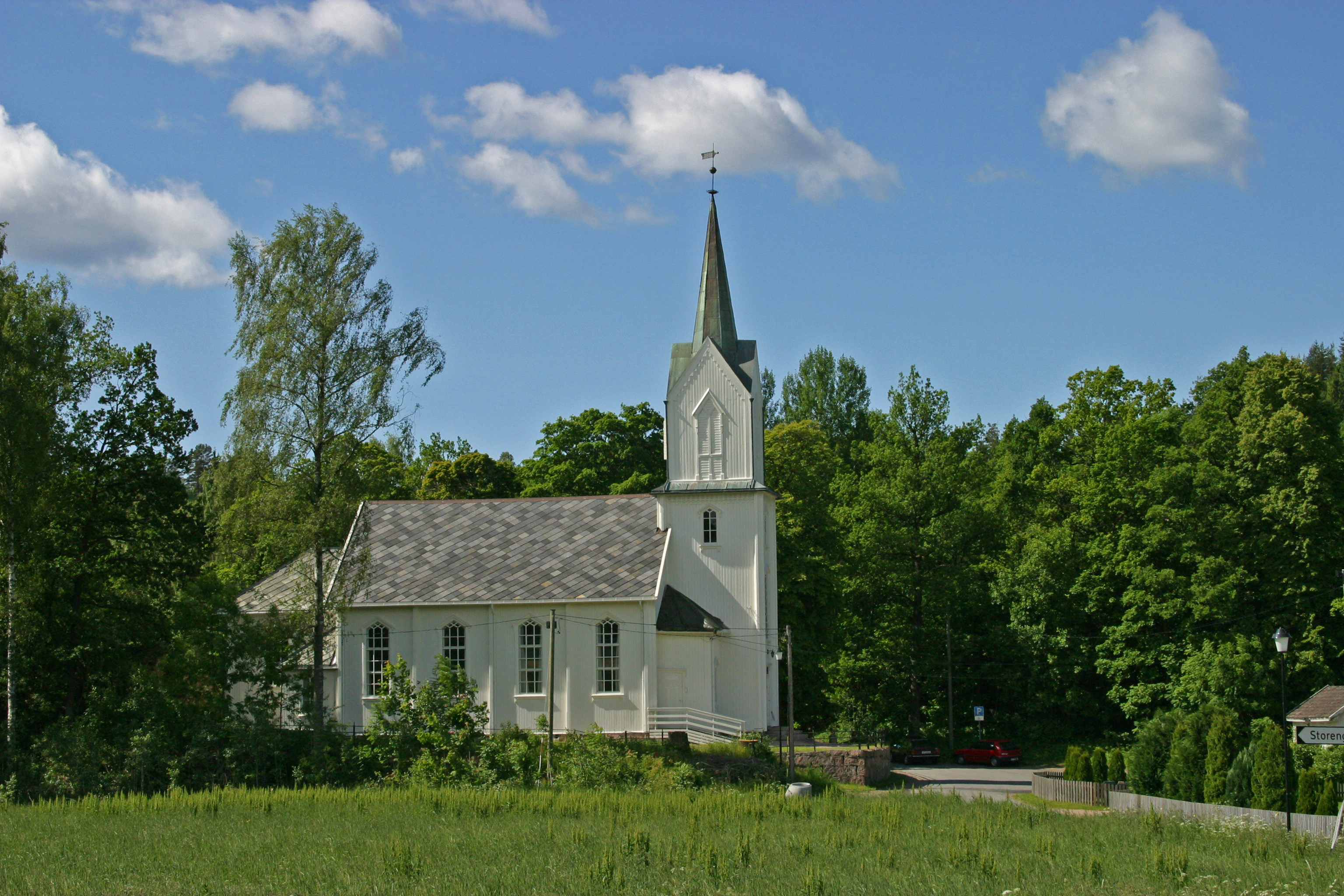 Picture of Holmsbu church (Buskerud - Norway)